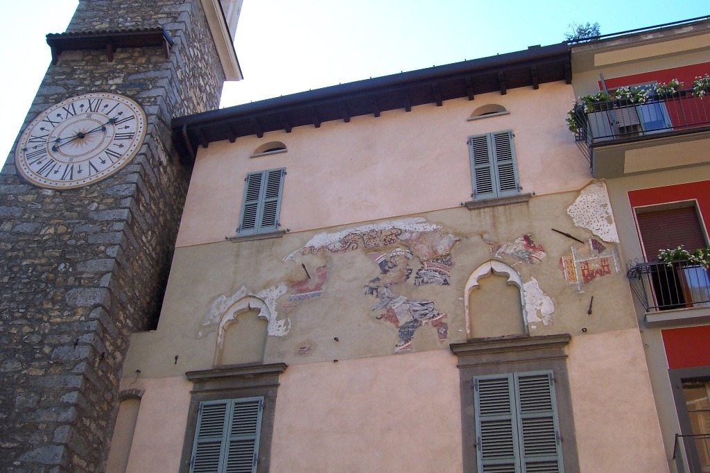 former palace of the Capitan of Valle Camonica. Breno, Val Camonica